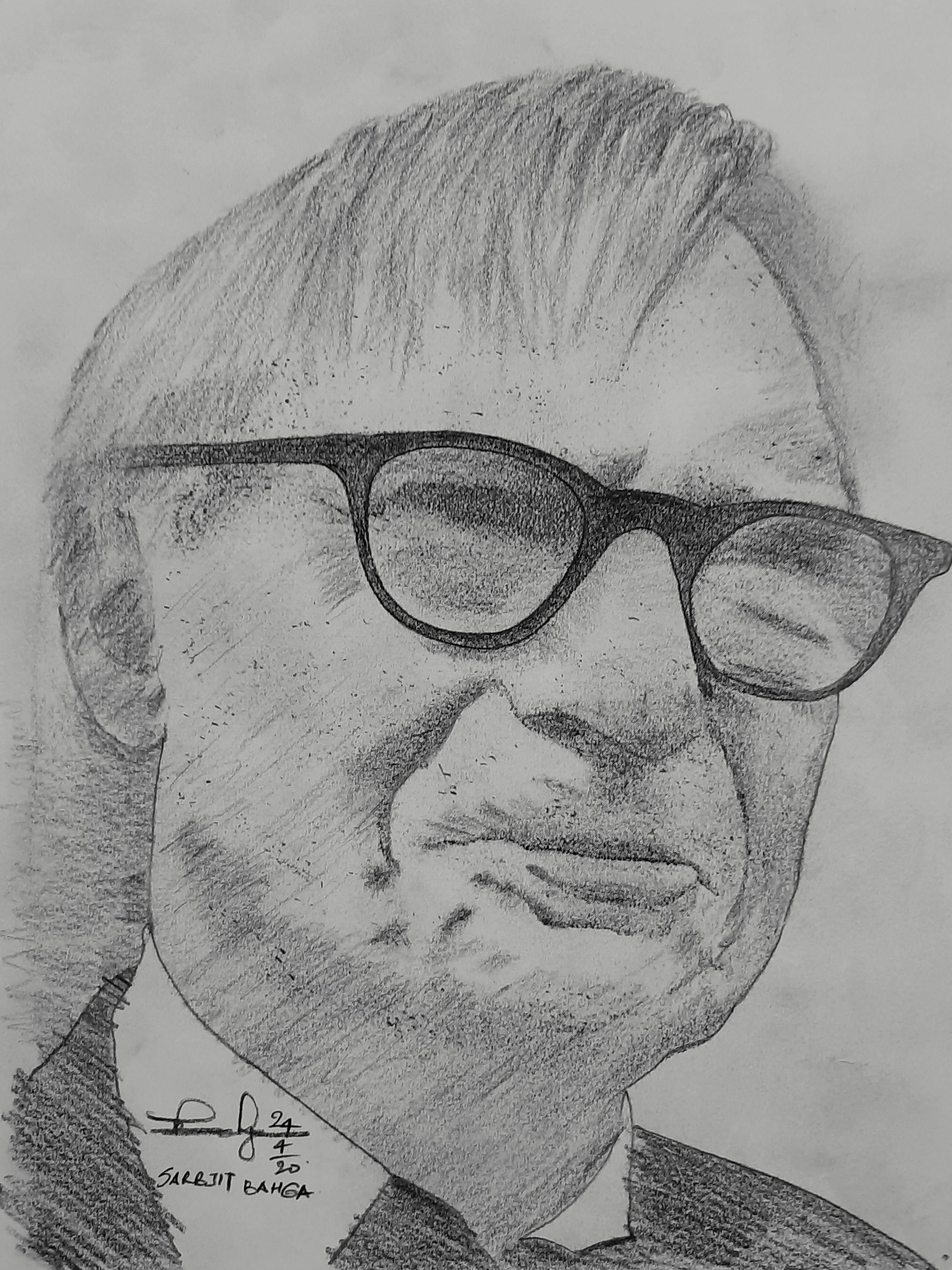 Louis Kahn - A pencil sketch by Sarbjit Bahga